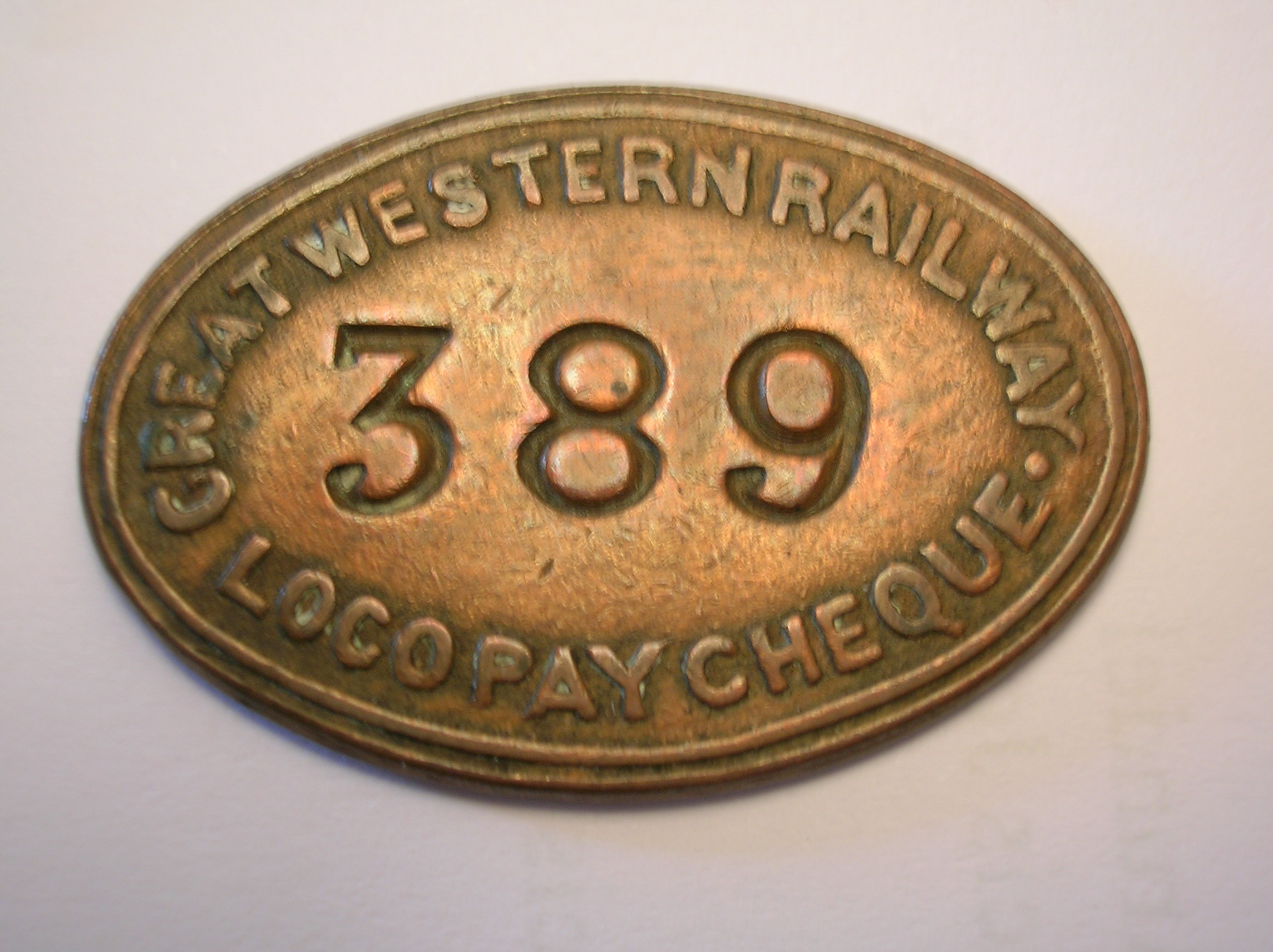 A Great Western Railway pay cheque piece used for the payment of employees